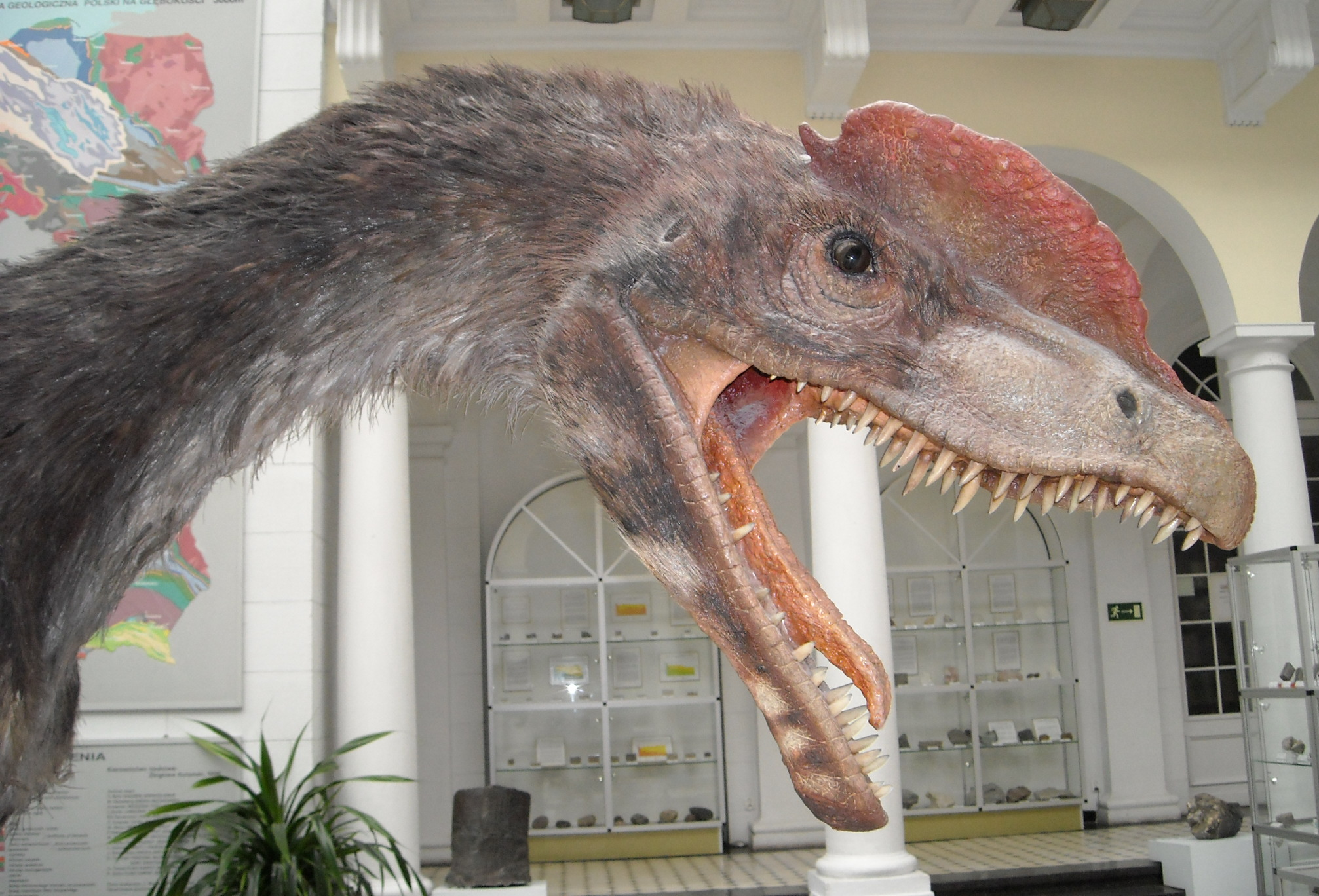 Model of Dilophosaurus wetherilli in the Geological Museum of the Polish Geological Institute in Warsaw